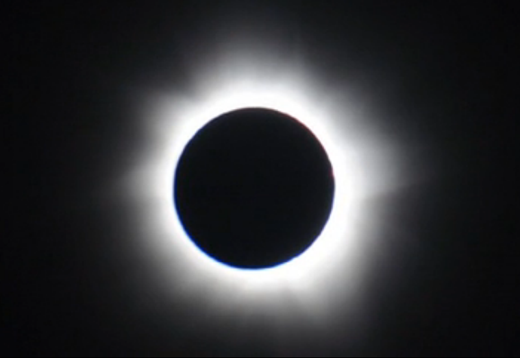 Solar eclipse of 13 November 2012, as seen from northern Australia. Screen capture of NASA video.